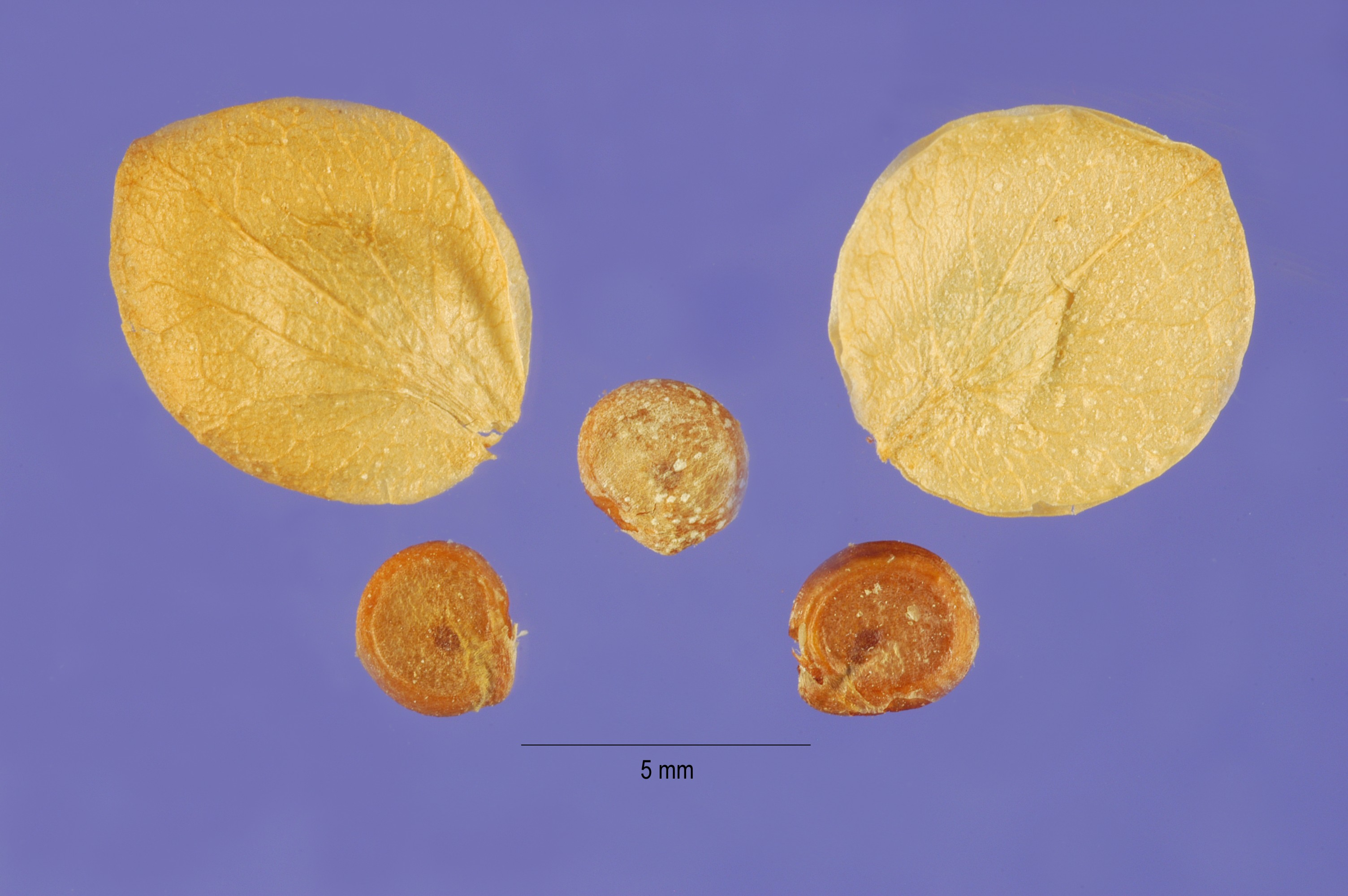 seeds of Atriplex hortensis from Carole Ritchie. Provided by ARS Systematic Botany and Mycology Laboratory. Turkey.